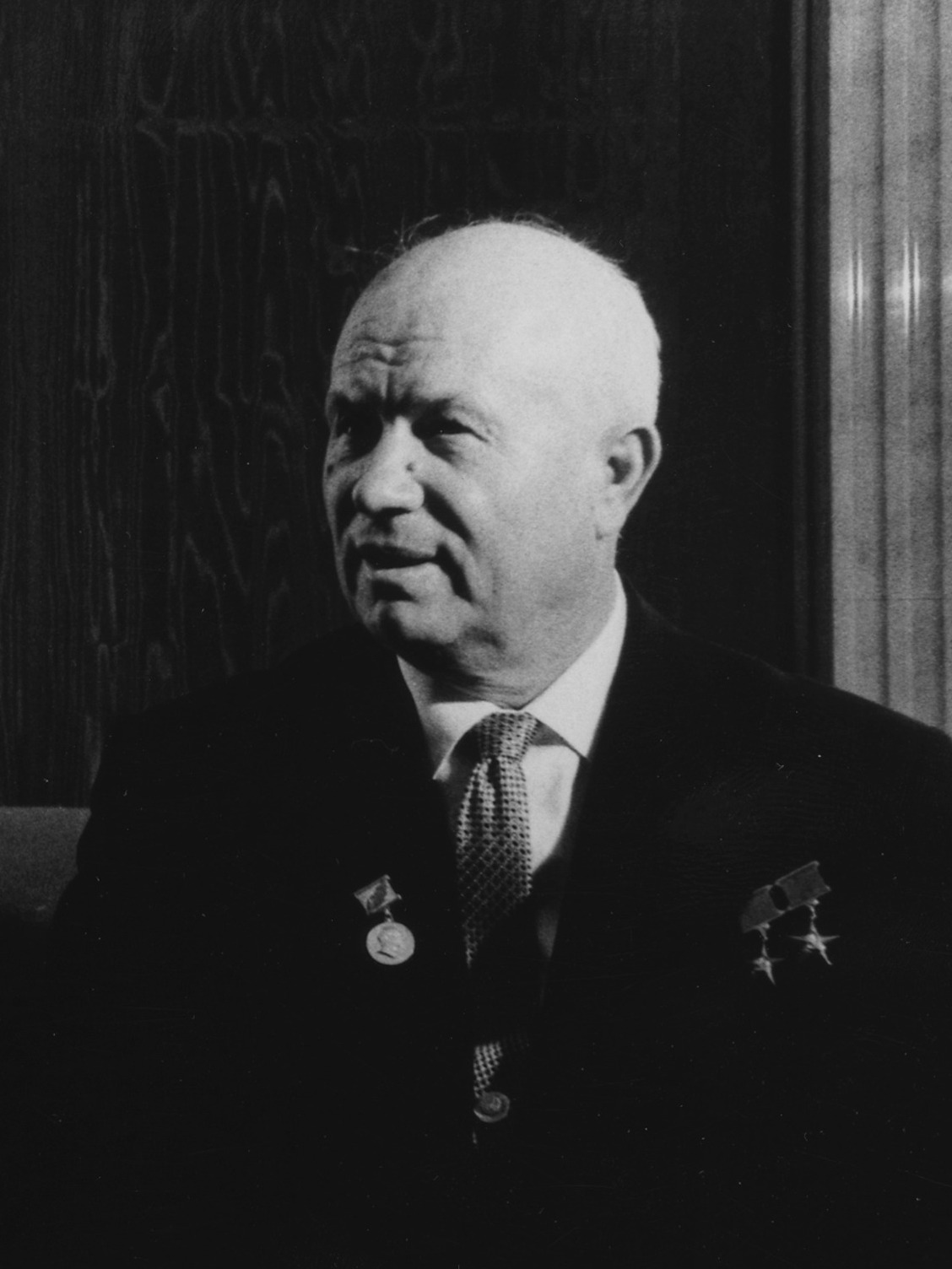 Nikita Khruschev. * Description: John F. Kennedy and Nikita Khrushchev meeting in Vienna, Austria, 1961 * Date: Vienna meeting, June 3, June 4, 1961 * Source: National Archives and Records Administration, [ * ARC Identifier: 193203 * Creator: Look Magazine * Photographer: Stanley Tretick * Access Restrictions: Unrestricted * Use Restrictions: Unrestricted